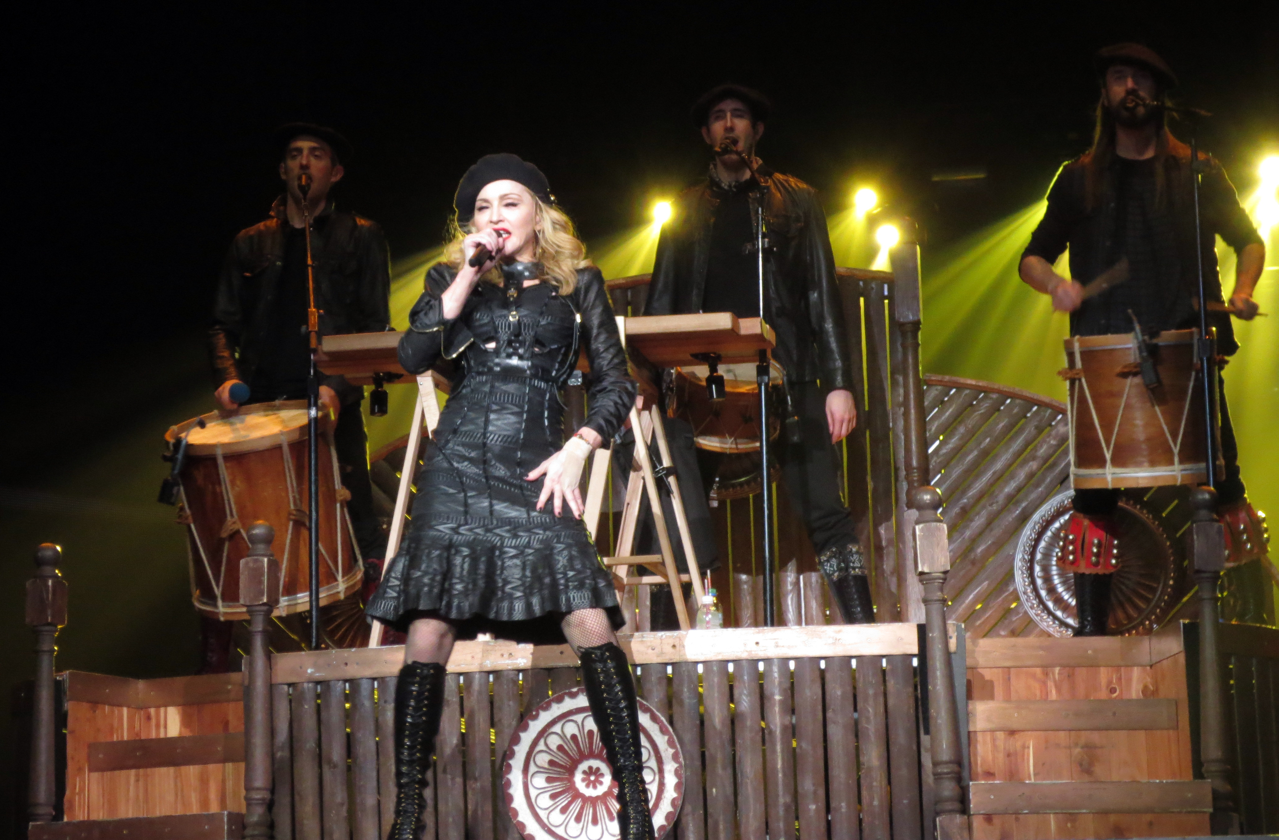 2012 10-25 MDNA Madonna Houston (190)